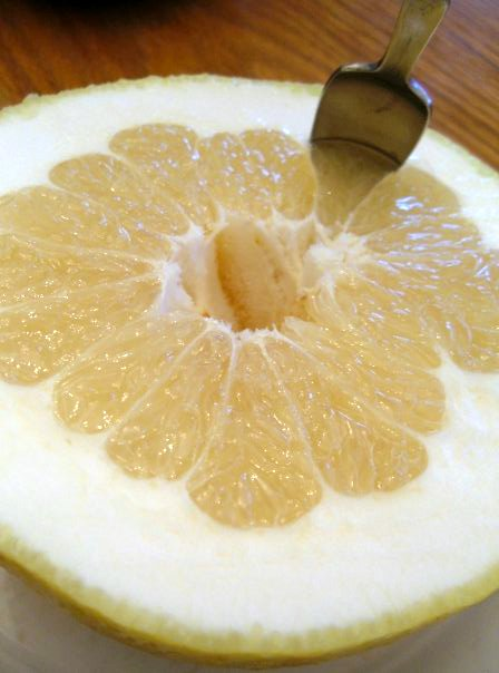 Oroblanco, a hybrid (Citrus maxima 'Siamese Sweet' x Citrus paradisi '4n Marsh') from California,([1]) cut in half